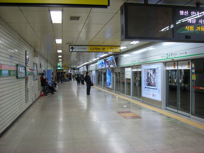 Seoul National University of Education Station